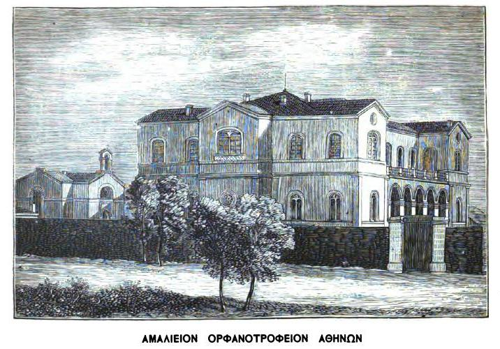 Poikilē stoa: ethnikē eikonographēnenē epetēris ... Etos 1-16, 1881-1914 (1882) Author: Ioannes A. Arsenēs , Michael A . Raphaelobits Volume: 3-4 Publisher: Estia Year: 1882 Possible copyright status: NOT_IN_COPYRIGHT Language: Greek Digitizing sponsor: Google Book from the collections of: Harvard University Collection: americana